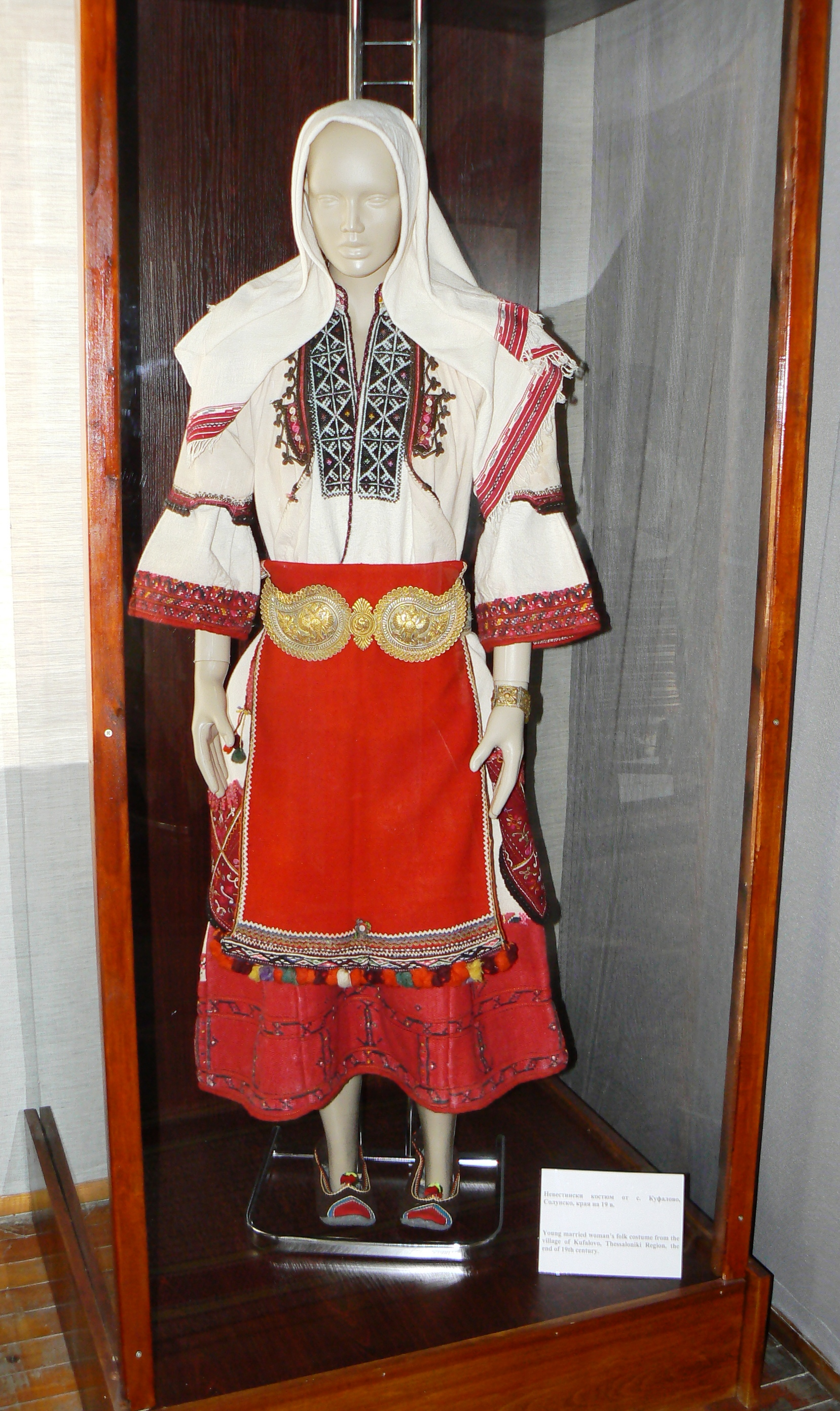 Traditional female wedding costume from Koufalia, near Thessaloniki, Burgas ethnographic museum